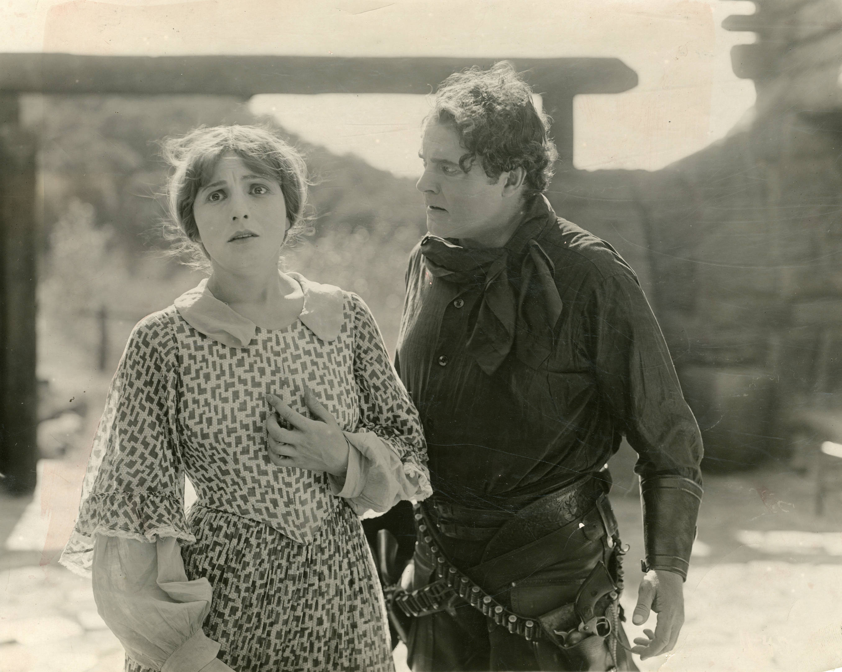 A scene from the American western film Riders of the Purple Sage (1918), which played at the Coliseum Theater, Seattle. Includes William Farnum and Mary Mersch. Subjects: motion pictures, actors, actresses